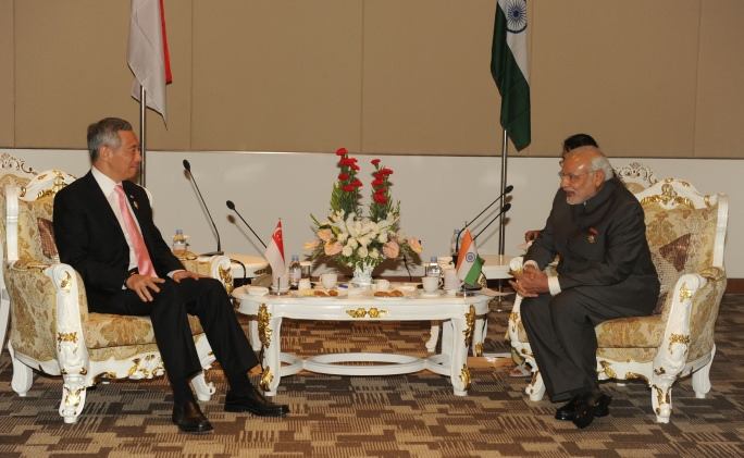 PM’s bilateral engagements at Nay Pyi Taw – Nov 12, 2014